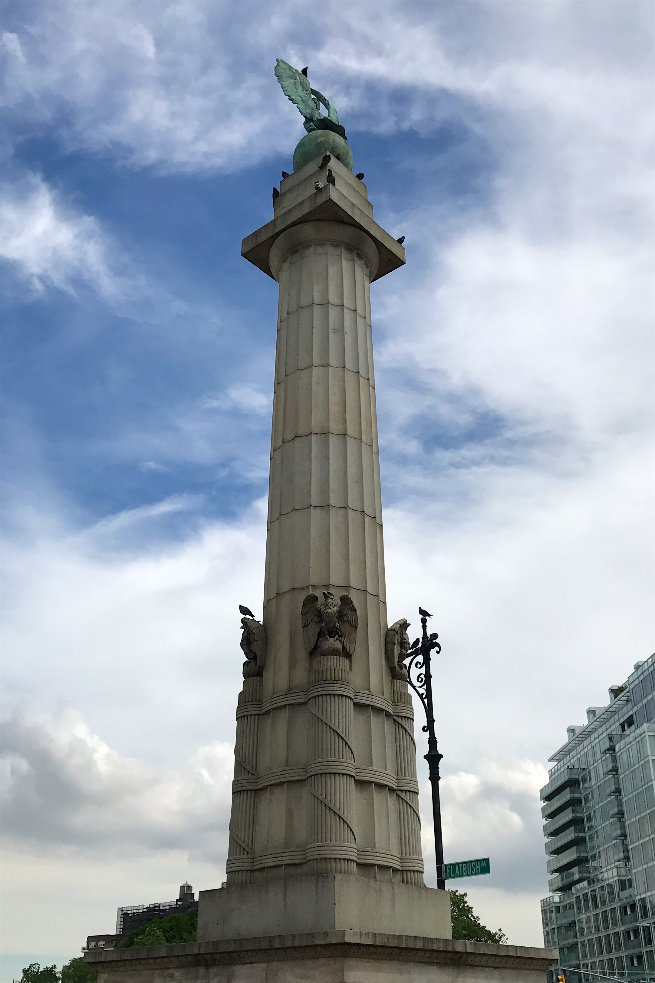 Column featuring eagles, one of four at the entrance to Prospect Park from Grand Army Plaza in Brooklyn, New York. sculptor: Frederick William MacMonnies, architect: Stanford White, dedicated: 1901